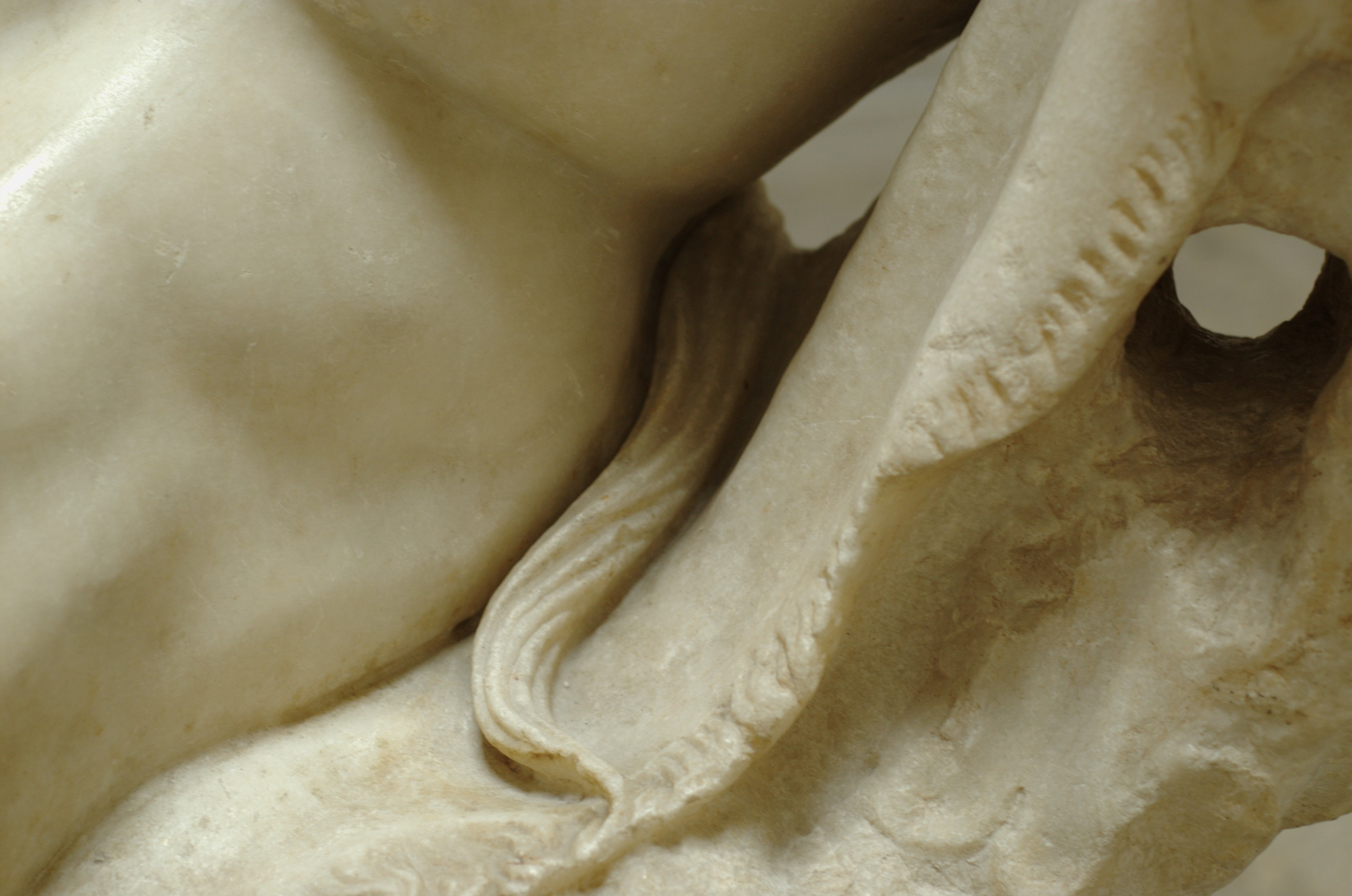 Detail of the tail of the Barberini Faun, marble copy of a bronze original, ca. 200 BC.